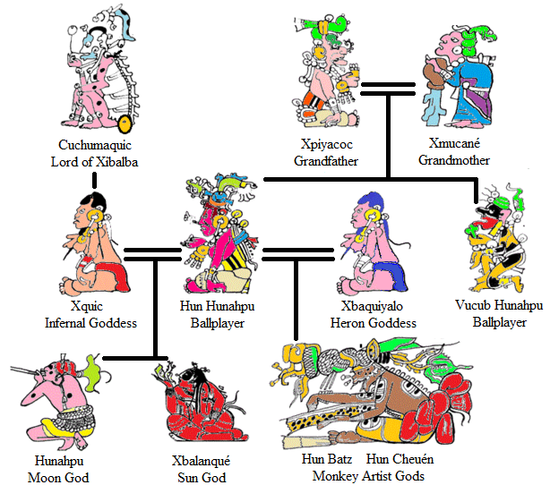 It's the family tree of the gods and demigods of the Popol Vuh.Note: the images are not actual Mayan depictions of the respective deities, arethe colors are arbitrary. The images of Xquic and Xbaquiyalo, in particular, are the same drawing painted with different colors.